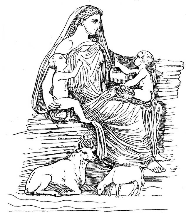 Image of Gaia Kourotrophos from book of Roscher printed 1884